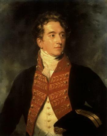 Portrait of Philip Dottin Souper (died 1861), colonial official and son-in-law of the artist. One of a pair of portraits, with Oriana Jane Souper nee Reinagle.